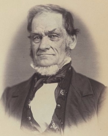 Timothy Davis (Iowa Congressman)